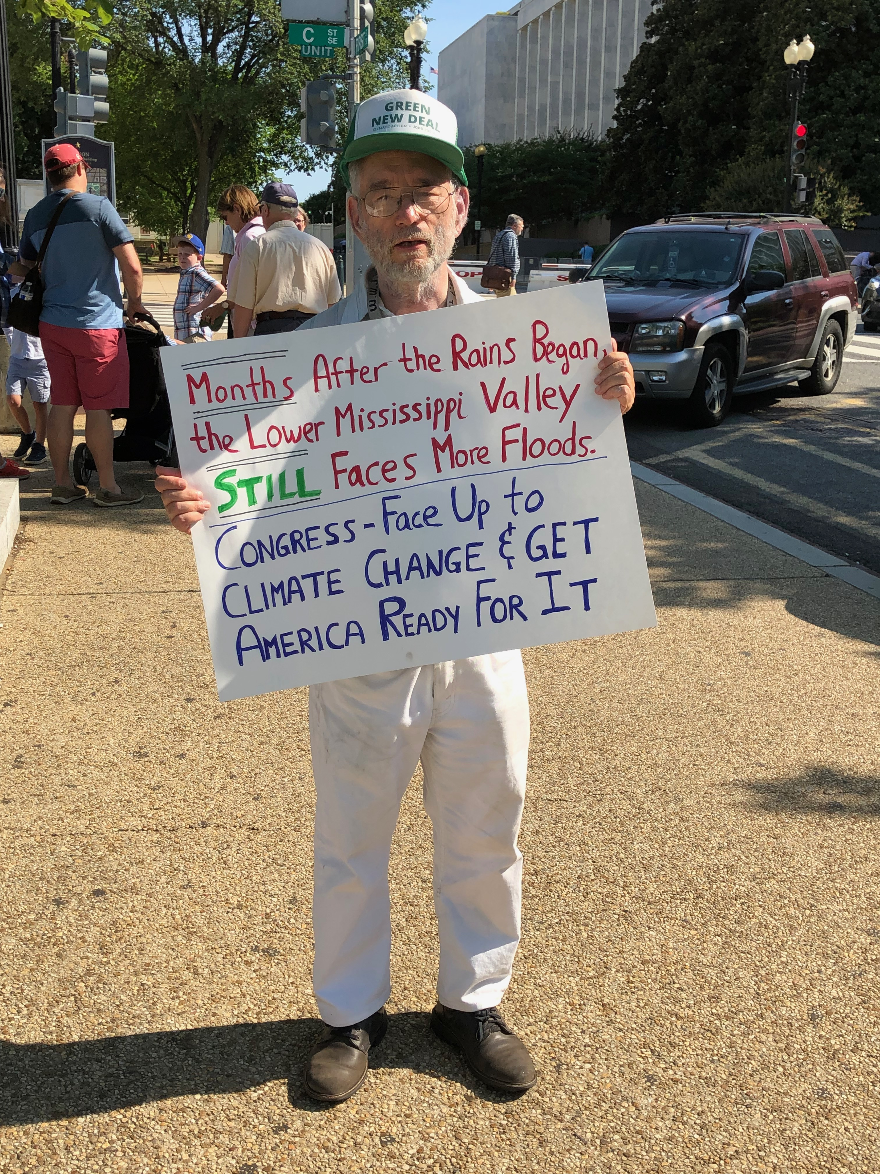 Climate activist at Capitol South Metro in 2019 - Mississippi River flooding